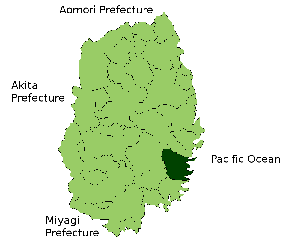 Location Map of Kamaishi in Iwate Prefecture, Japan